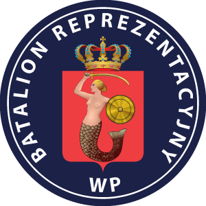 Shoulder patch of the Polish Armed Forces Honor Guard Battalion